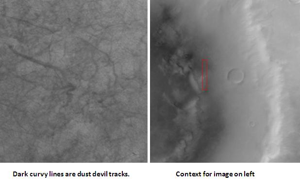 Kepler Crater with dust devil tracks, as seen by mgs. Location is 46.27 degrees south latitude and 142.36 degrees east longitude. This image was taken with the Mars Orbital Camera MOC) on the Mars Global Surveyor (MGS). The photo credit is Malin Space Science Systems/NASA.